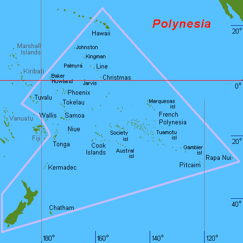 Range of Central Pacific